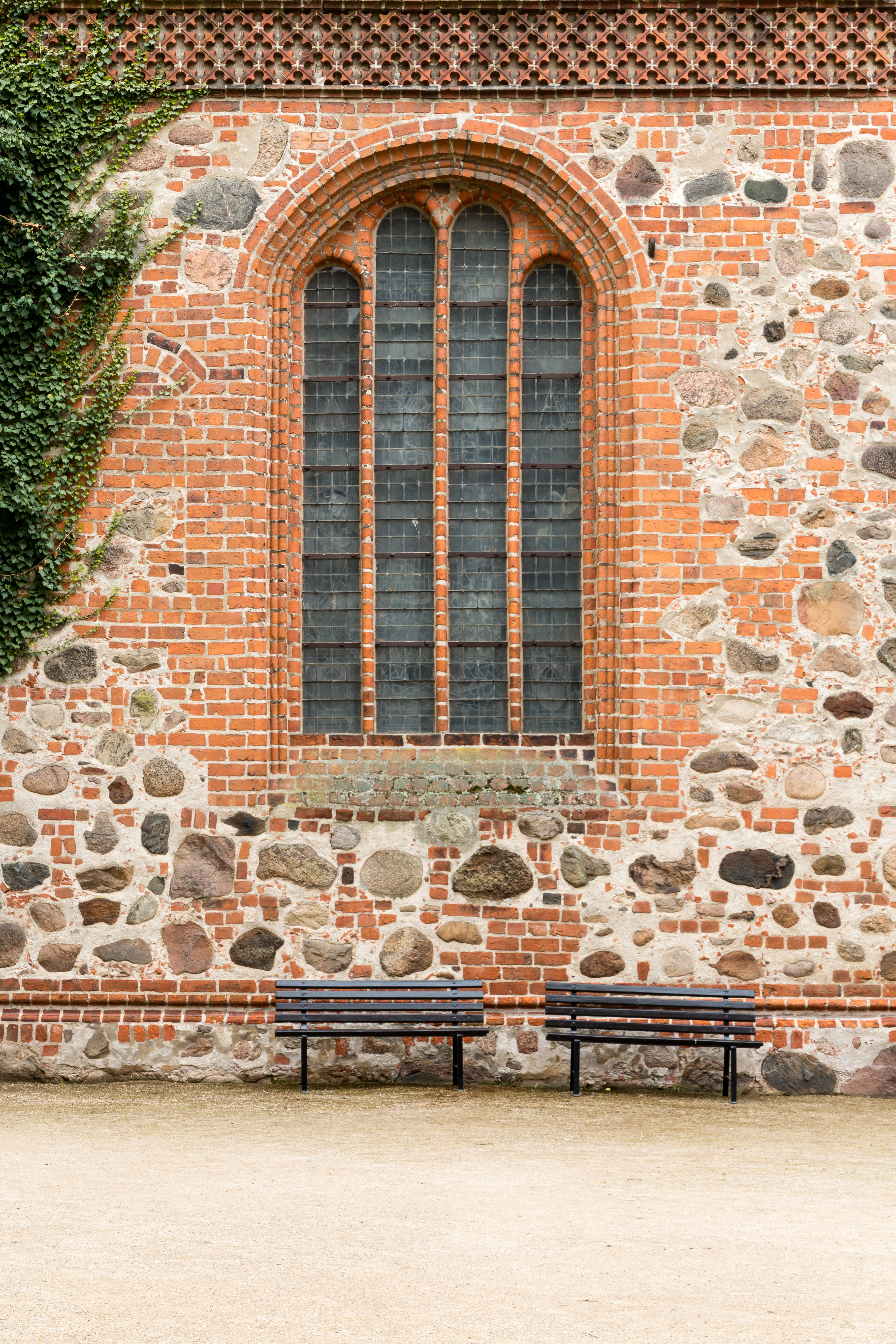 Heiliggrabkapelle, Monastery Endowment of the Holy Grave, Heiligengrabe, Brandenburg, Germany